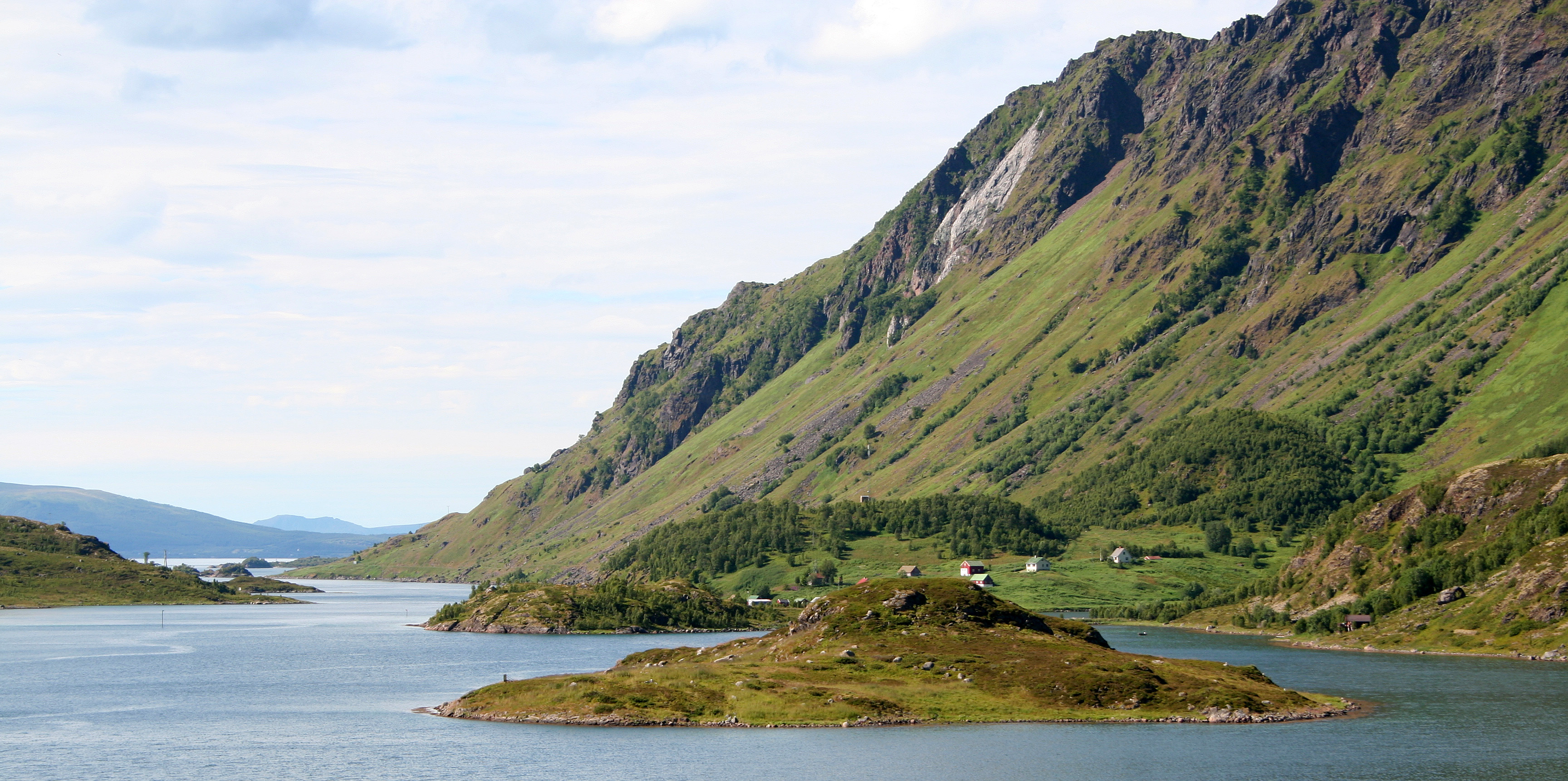 View across Ingelsfjorden in Hadsel, Norway towards the farm Ingelsfjord on the north side of the fjord.